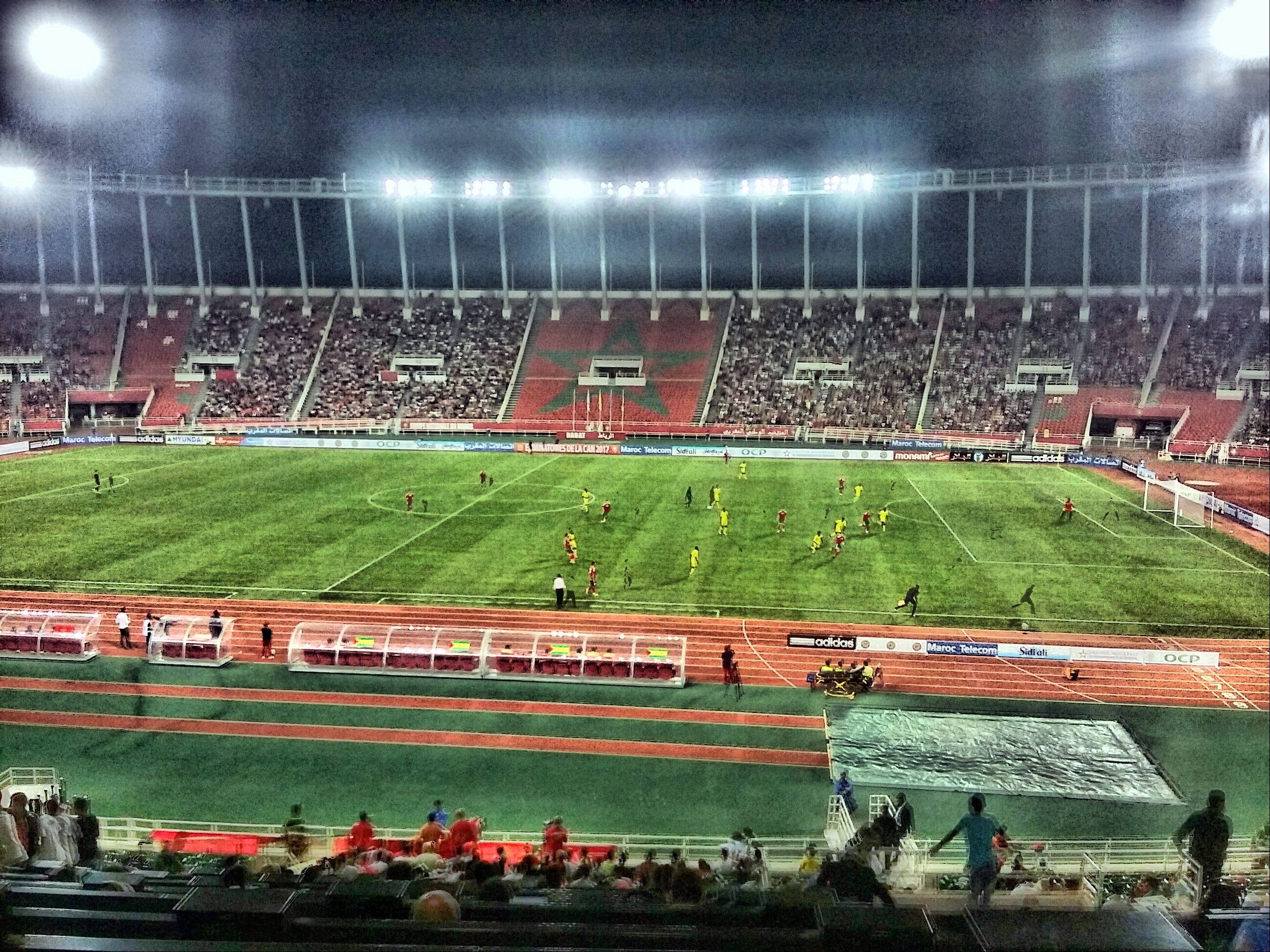 Descriptive photo